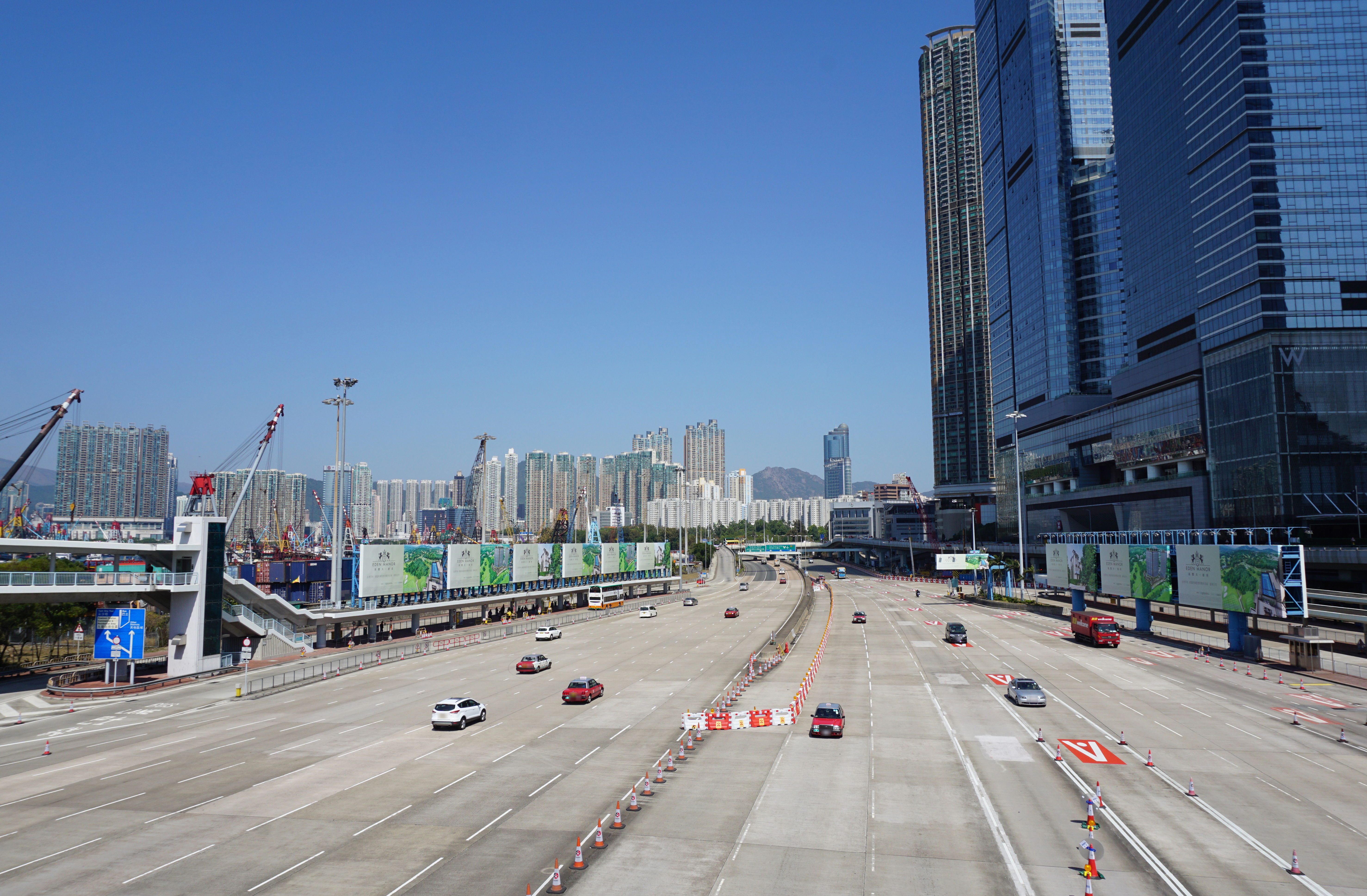 West Kowloon Highway in West Tsim Sha Tsui, Hong Kong.